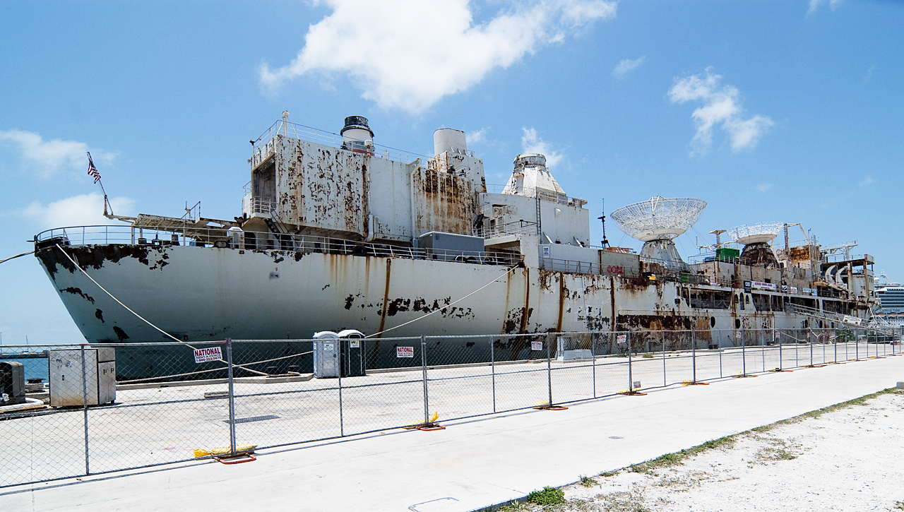 Ex-USNS Hoyt S. Vandenberg at Key West, Florida, waiting to be sunk.